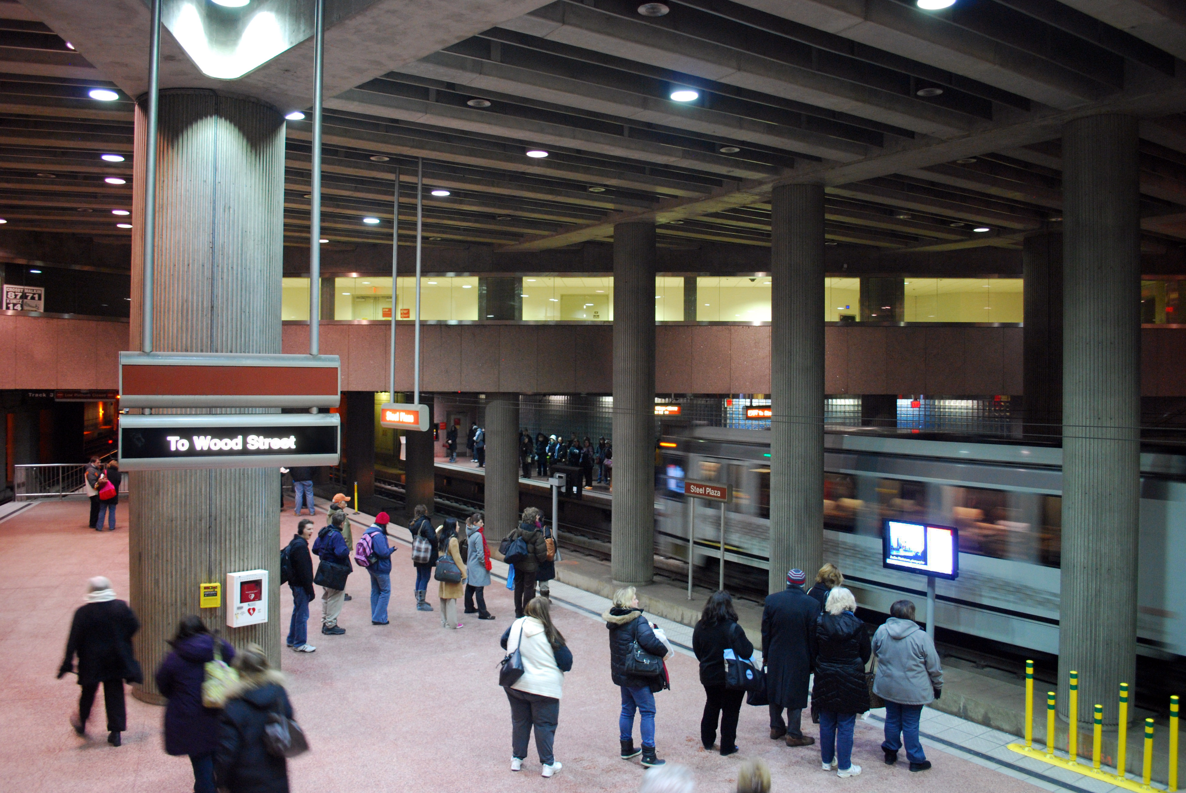 The Steel Plaza Station of the Port Authority of Allegheny County in Pittsburgh.